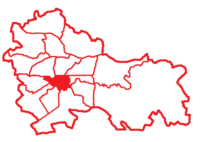 Districts of Ljubljana. Center district is highlighted